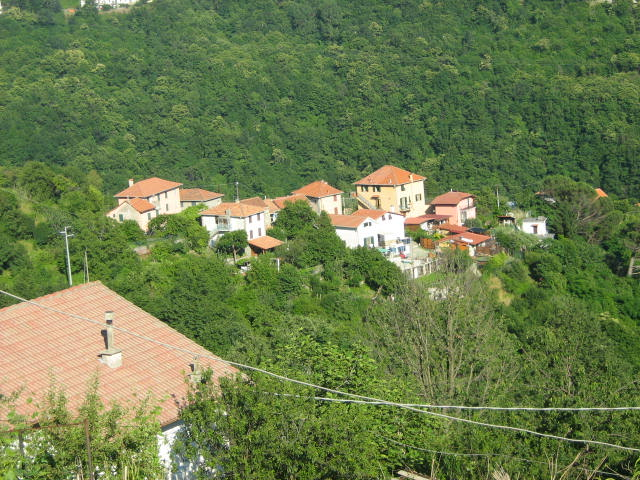 Panoramic view of Costagiutta, hamlet of Mignanego (GE), Italy.